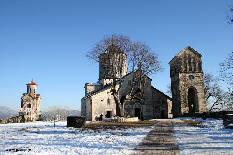 The monastery of Martvili, Samegrelo province, Georgia.